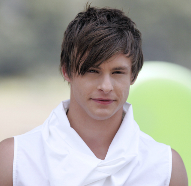 Trent Bell at Sony Foundation's Youth Cancer campaign in Sydney.